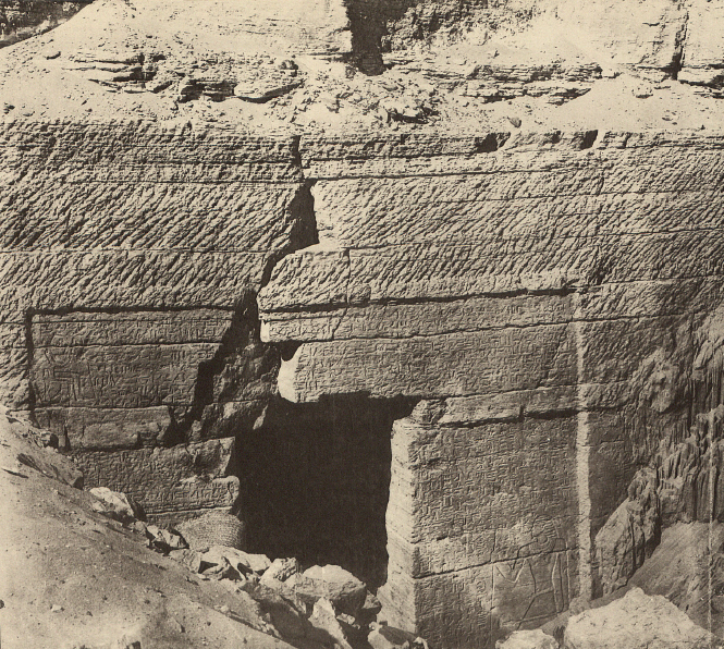 Tomb of Harkhuf